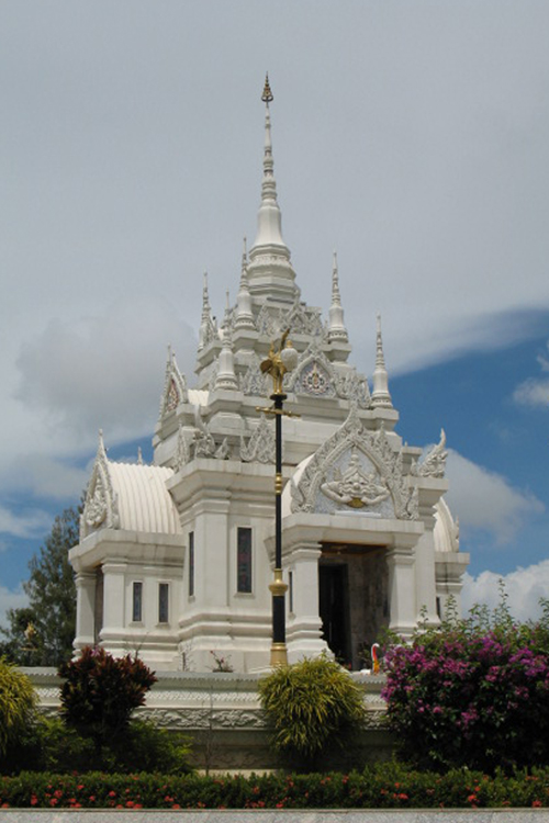 Surat Thani City Pillar Shrine